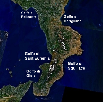 Gulf of Calabria, an Italian region